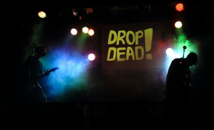 Drop Dead! live in Buenos Aires 12/2015.jpg